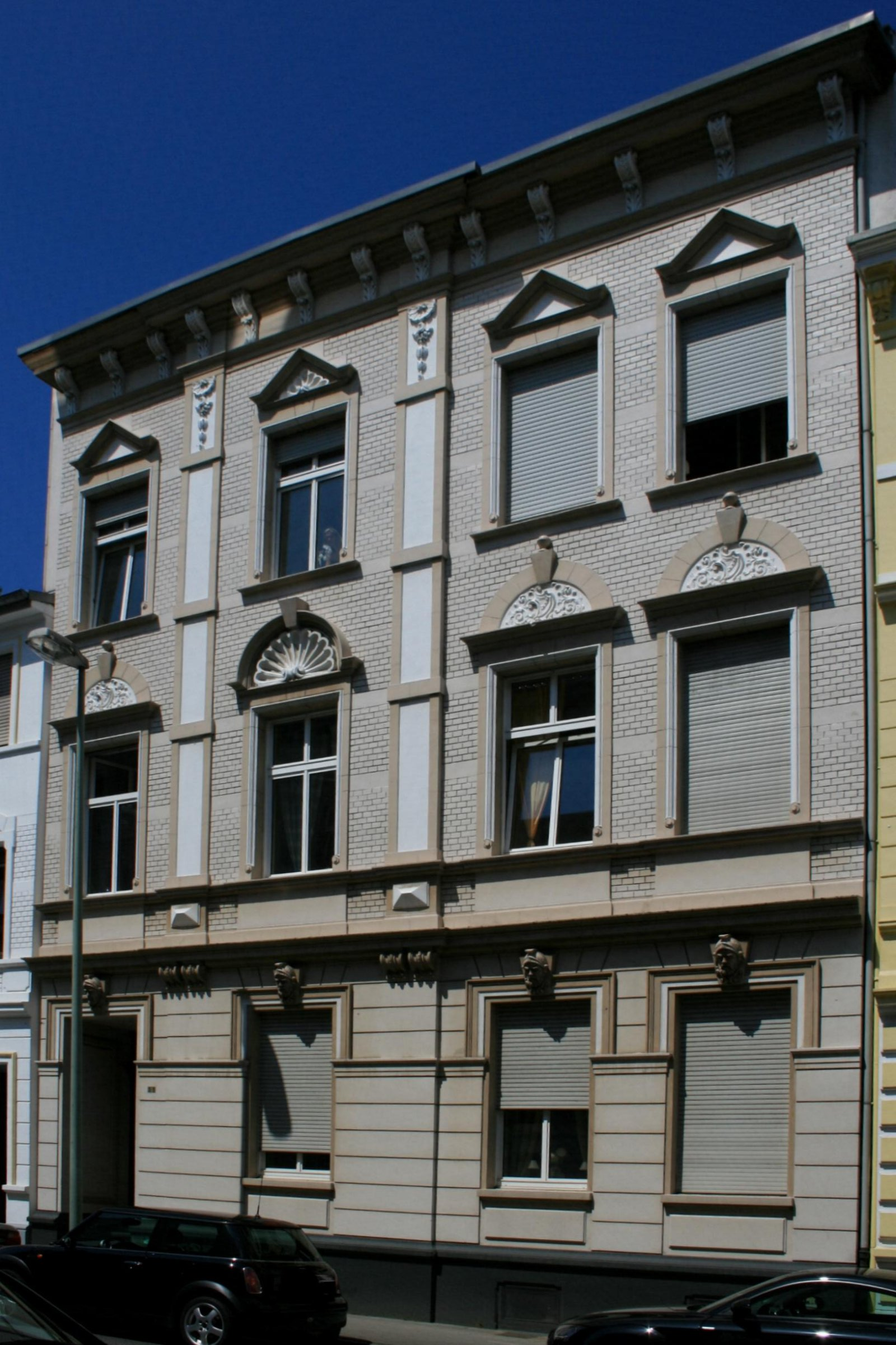 Cultural heritage monument No. F 002 in Mönchengladbach